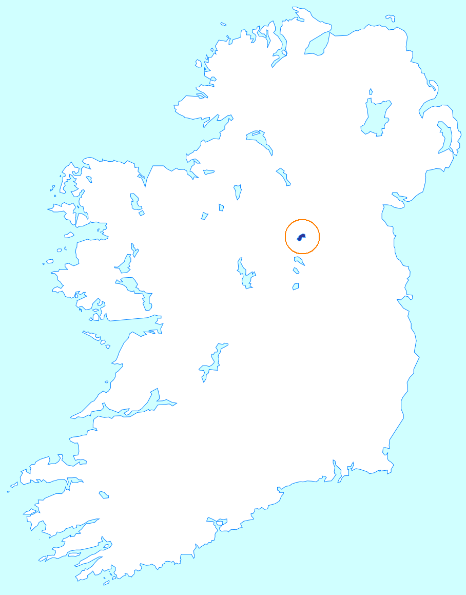 Location map of the Lough Sheelin in Ireland